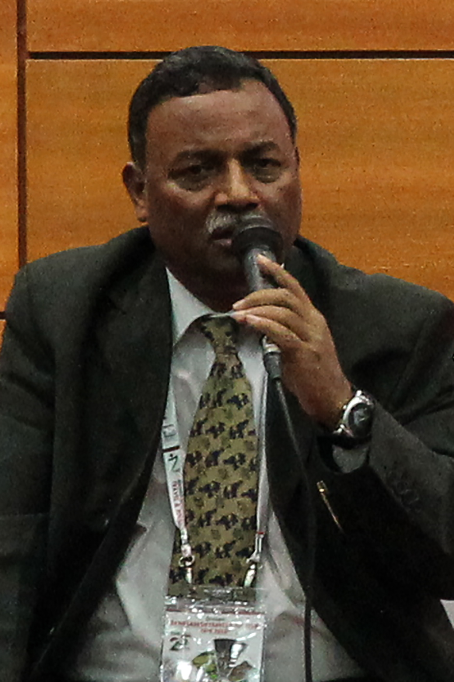 J. P. Shaw, Regional Director (East), India Tourism-Kolkata, Ministry of Tourism, Government of India, speaks for the Know India Tourism Seminar during Bangladesh Travel & Tourism Fair (BTTF) 2018 at Bangabandhu International Conference Center, Dhaka.